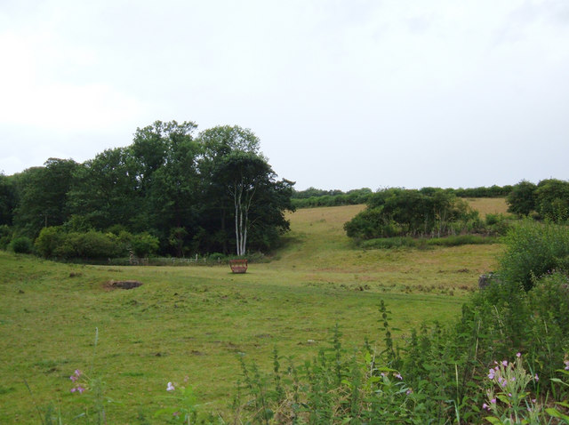 Site of Wothersome Medieval Village Looking north from the bridge over Bramham Beck. Once a place of laughter and tears, and toil and play. Now nothing but a place for quiet contemplation.